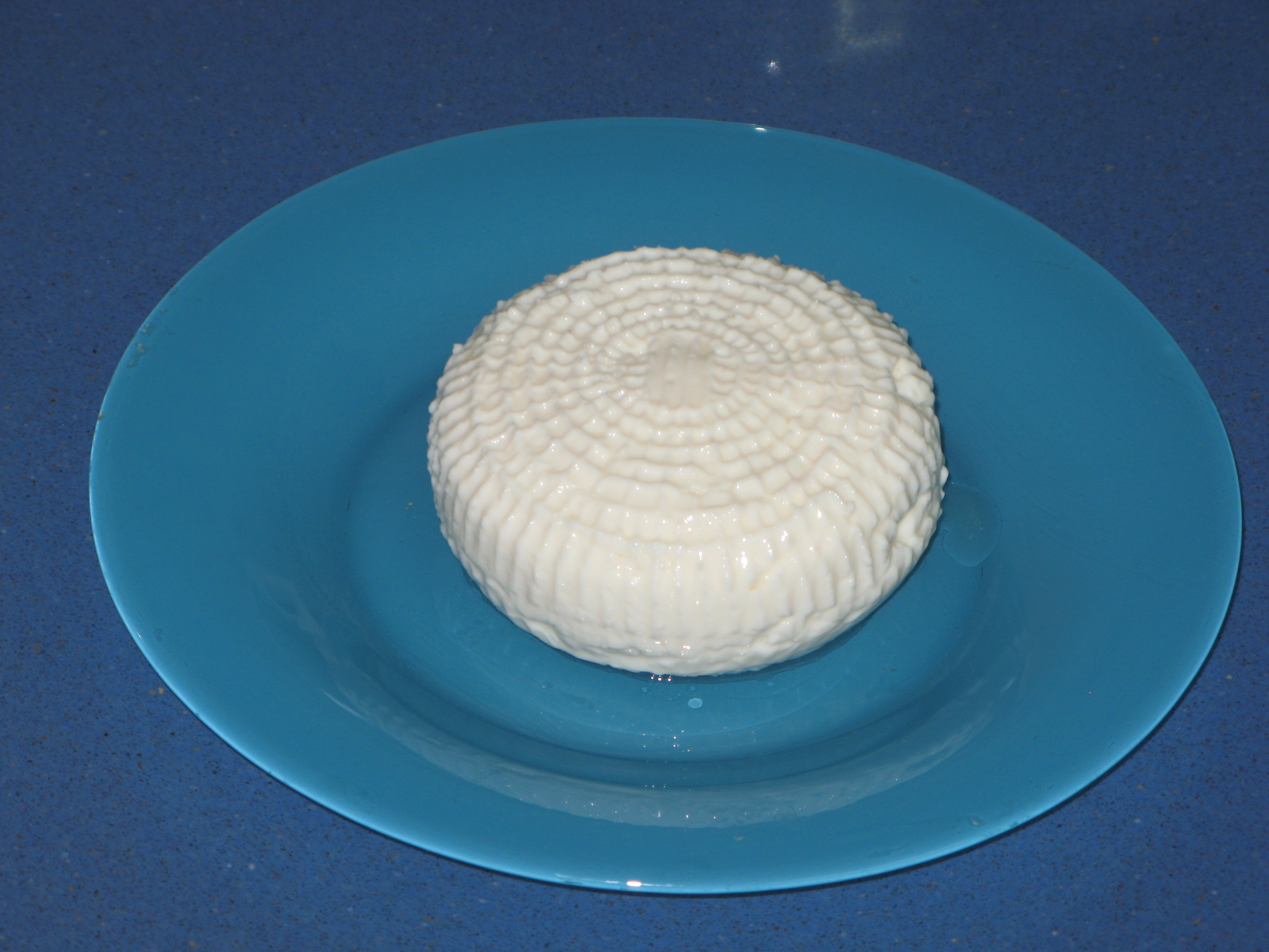 Ball of Safed (Tzfat) Cheese